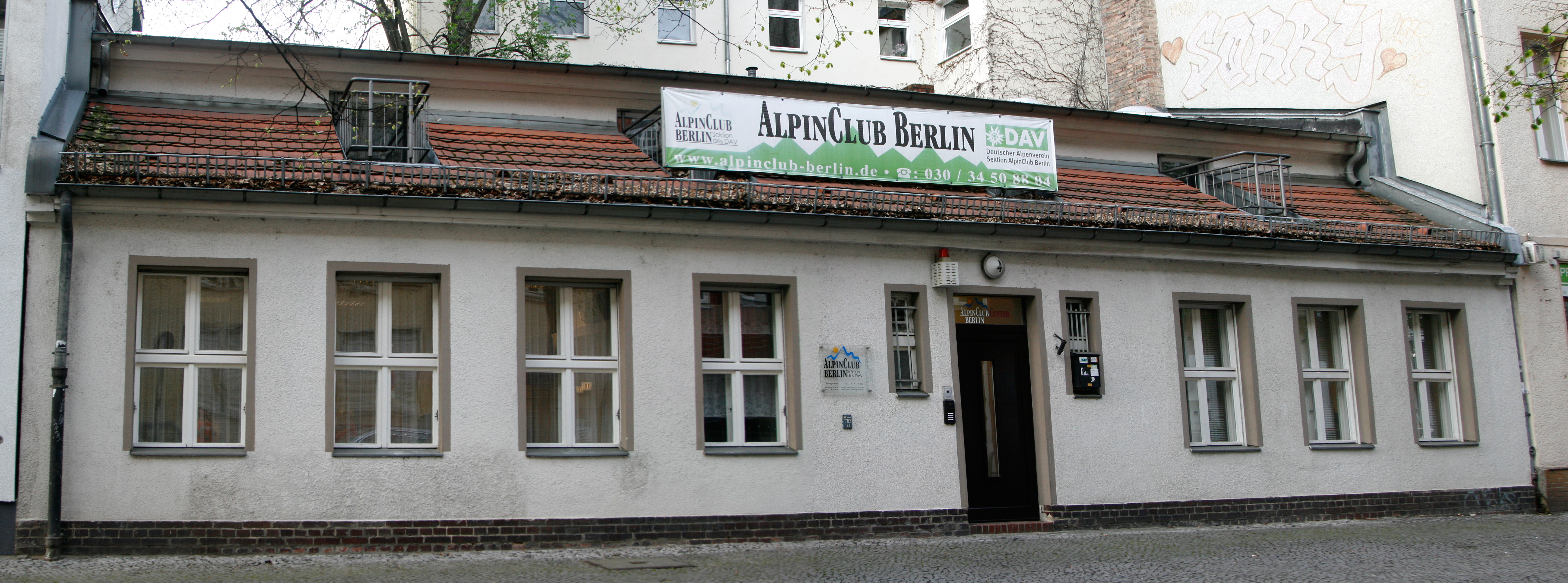 Club home of AlpinClub Berlin (DAV), in Spielhagenstraße 4, Berlin. Panorama stitch.